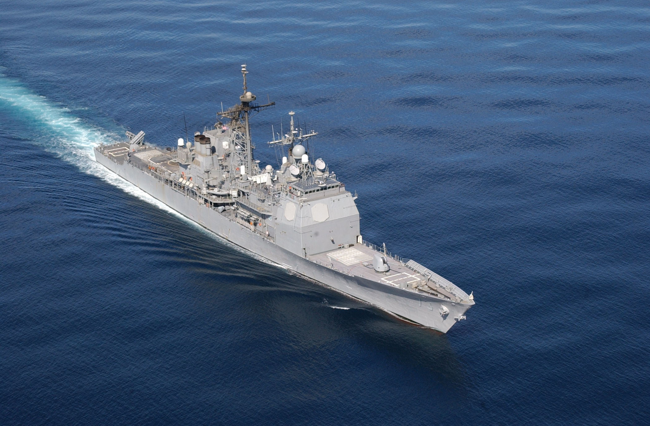 020102-N-9312L-028 At sea with USS John C. Stennis (CVN 74) Jan. 2, 2002 -- USS Port Royal (CG 73) sails in support of Operation Enduring Freedom. The guided-missile cruiser is part of the USS John C. Stennis Battle Group.